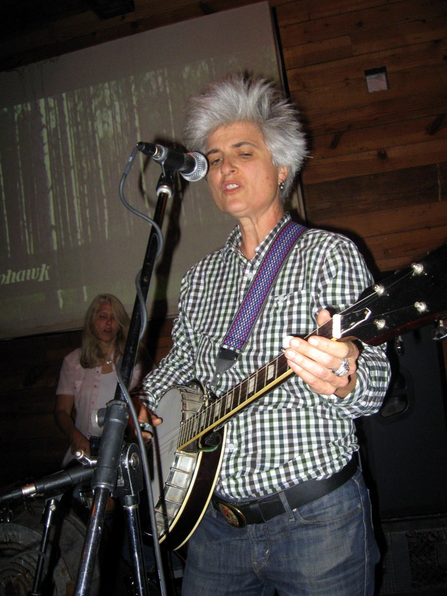 Gretchen Phillips performing on March 25, 2011